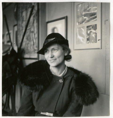 Florence E. Meier Chase, c. 1930s, by Ruel P. Tolman, Smithsonian Institution Archives, Record Unit 7433, Ruel P. Tolman Papers, Box 3, Tolman Scrapbook A-N , Negative number: SIA2011-0100.